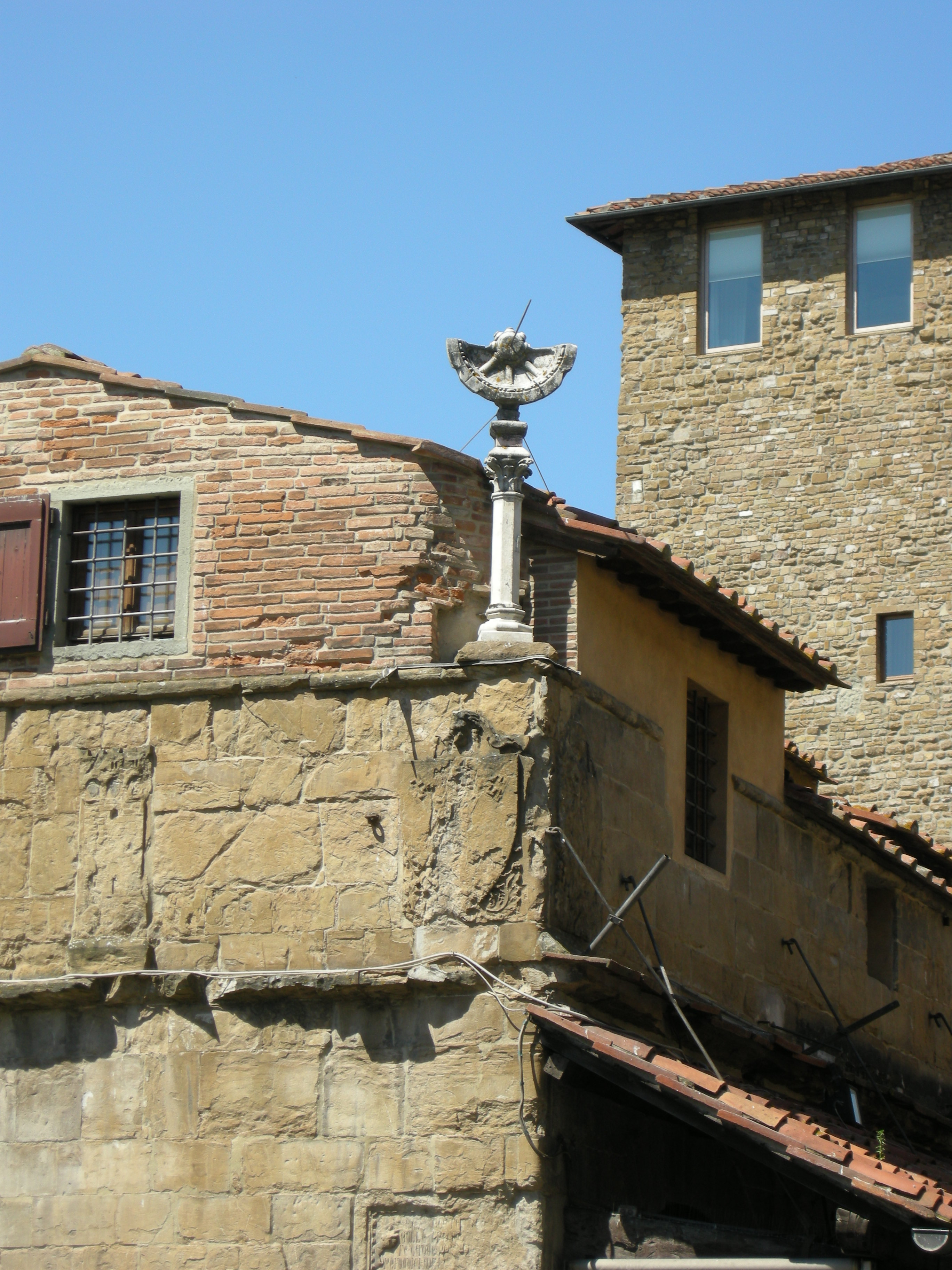 Gnomon (sundial) along Ponte Vecchio, Firenze, Italy.